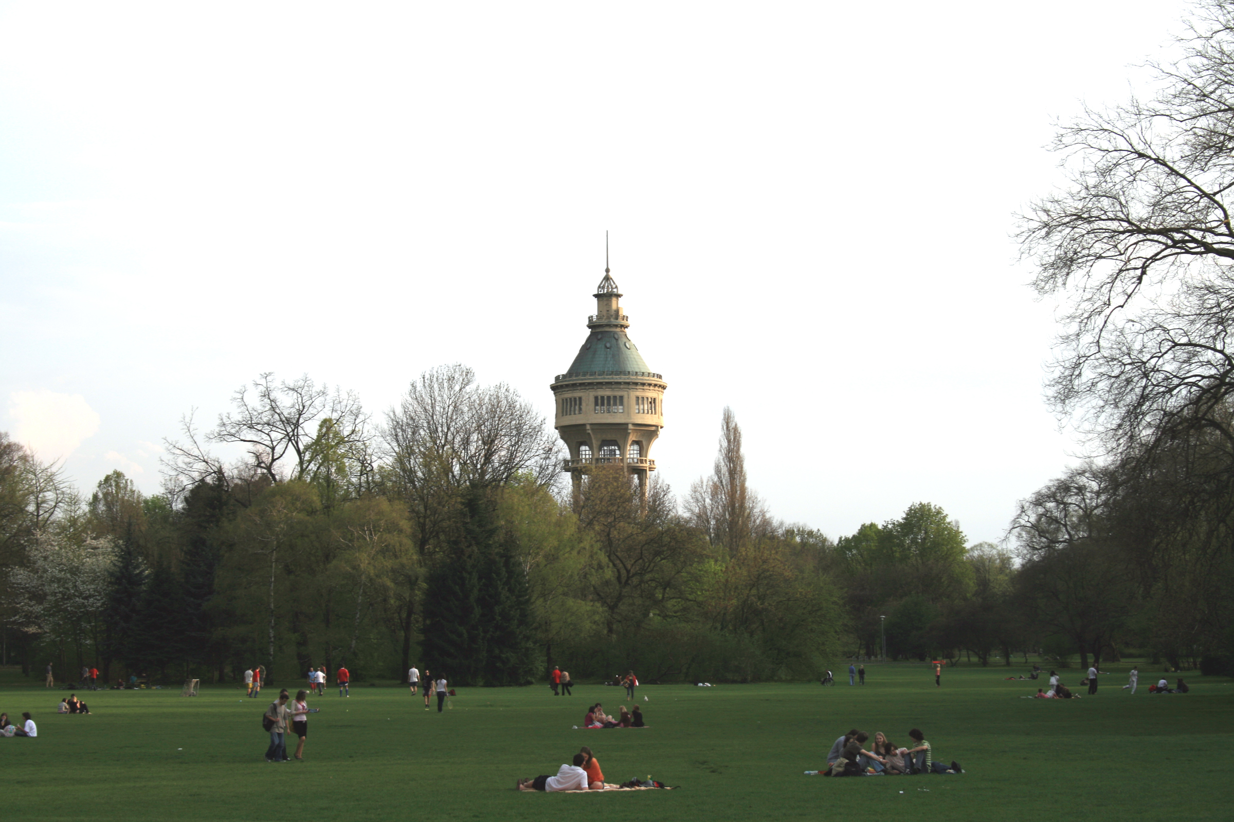 Margaret Island, Budapest, Hungary